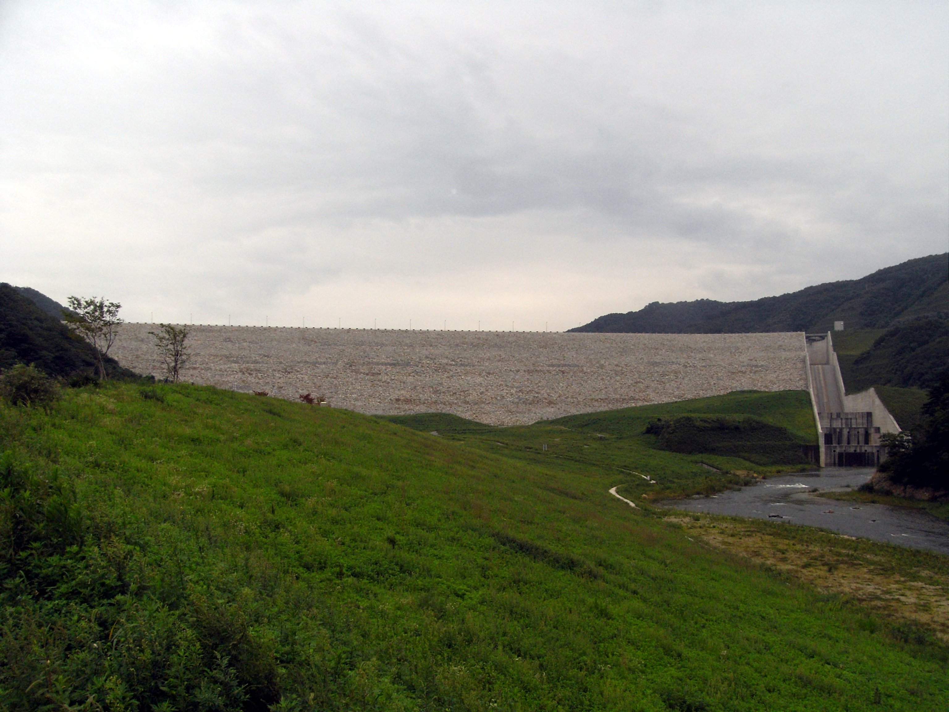 Surikamigawa Dam(Surikamigawa river/Fukushima Pref./Japan)